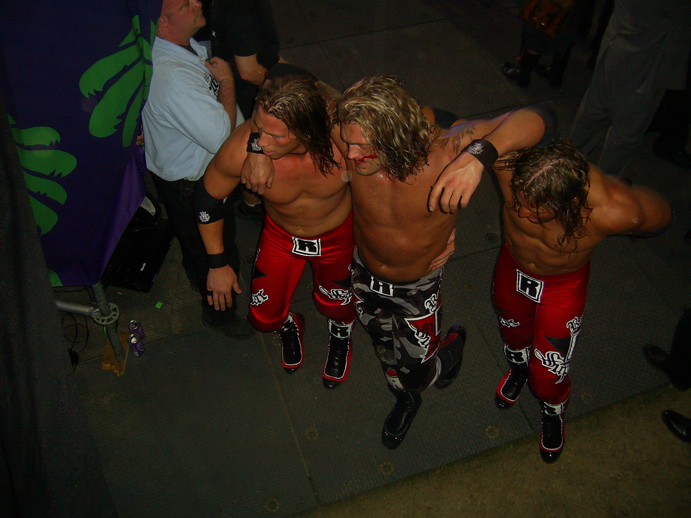 Citrus Bowl, Wrestlemania XXIV Edge after his match with The Undertaker